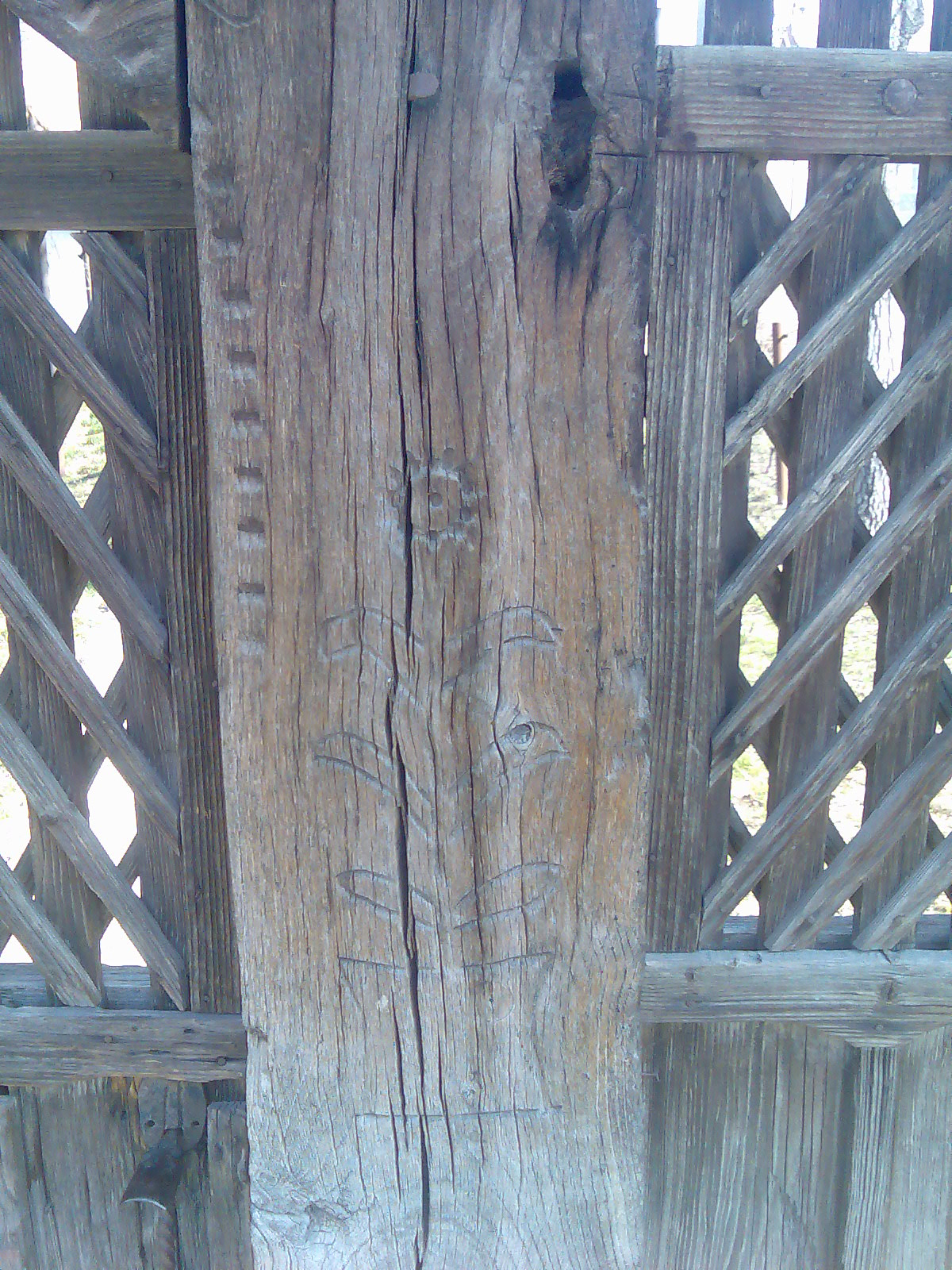 Motive florale - Poarta familiei Cosăcea Ion